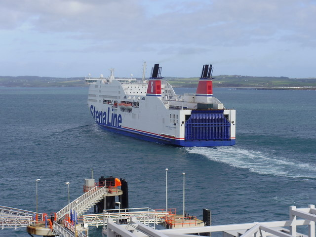 Stena ferry leaving Holyhead